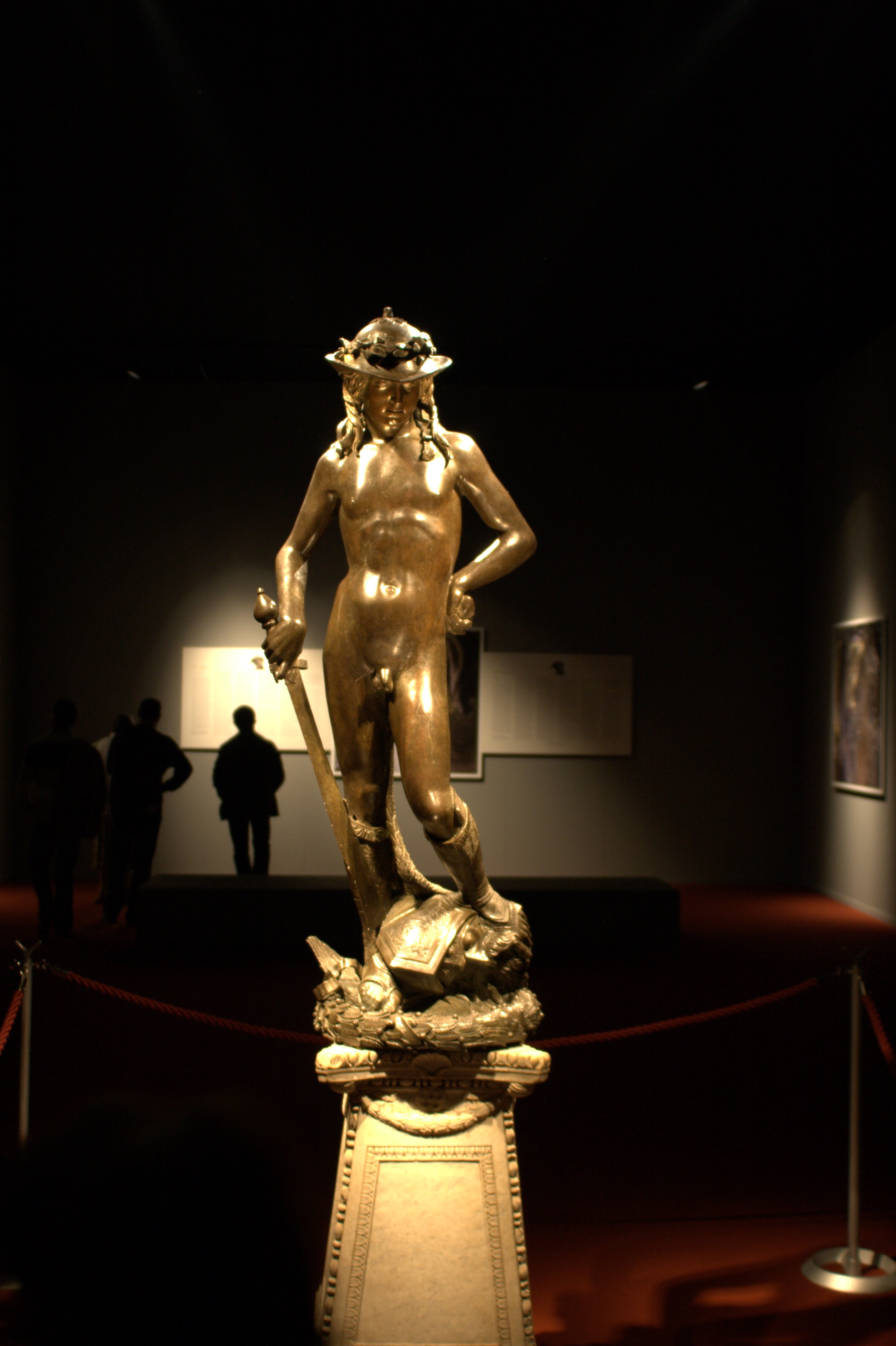 see abovesee above